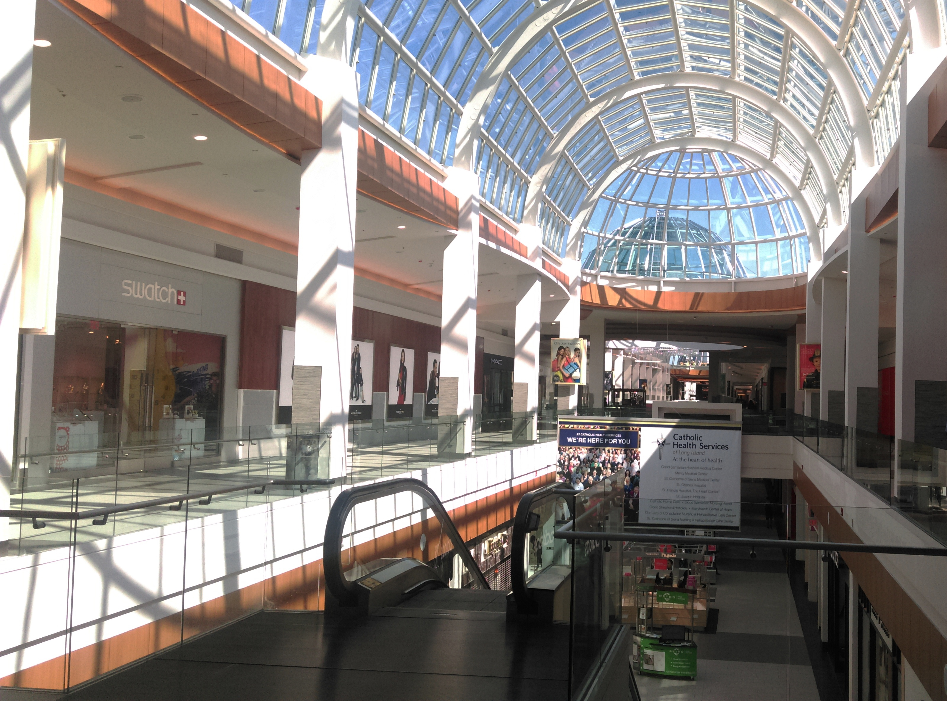 Looking northwest in upper level on a sunny morning before most shops open.